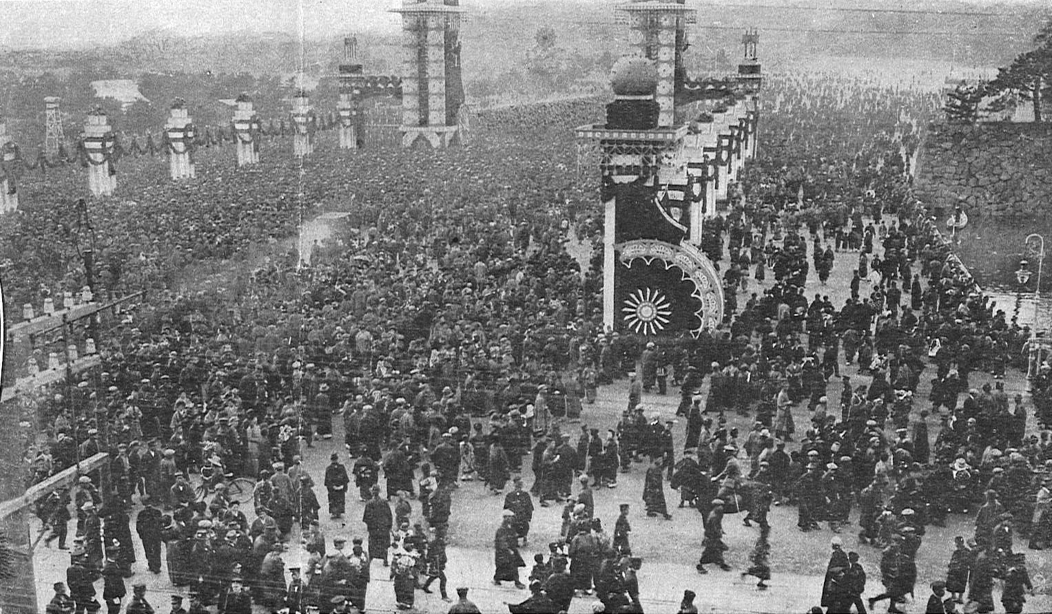 newspaper photograph, original clipping -- New York Public Library Picture Collection: Caption: "Throngs before the Imperial Palace in Japan awaiting the appearance of the Crown Prince for the recent proclamation of his official recognition as the heir apparent to the Japanese Imperial Throne." Note: Prince Hirohito was proclaimed Crown Prince and heir apparent on November 2, 1916, but this photo wasn't published in the New York Times until a few weeks later in December.